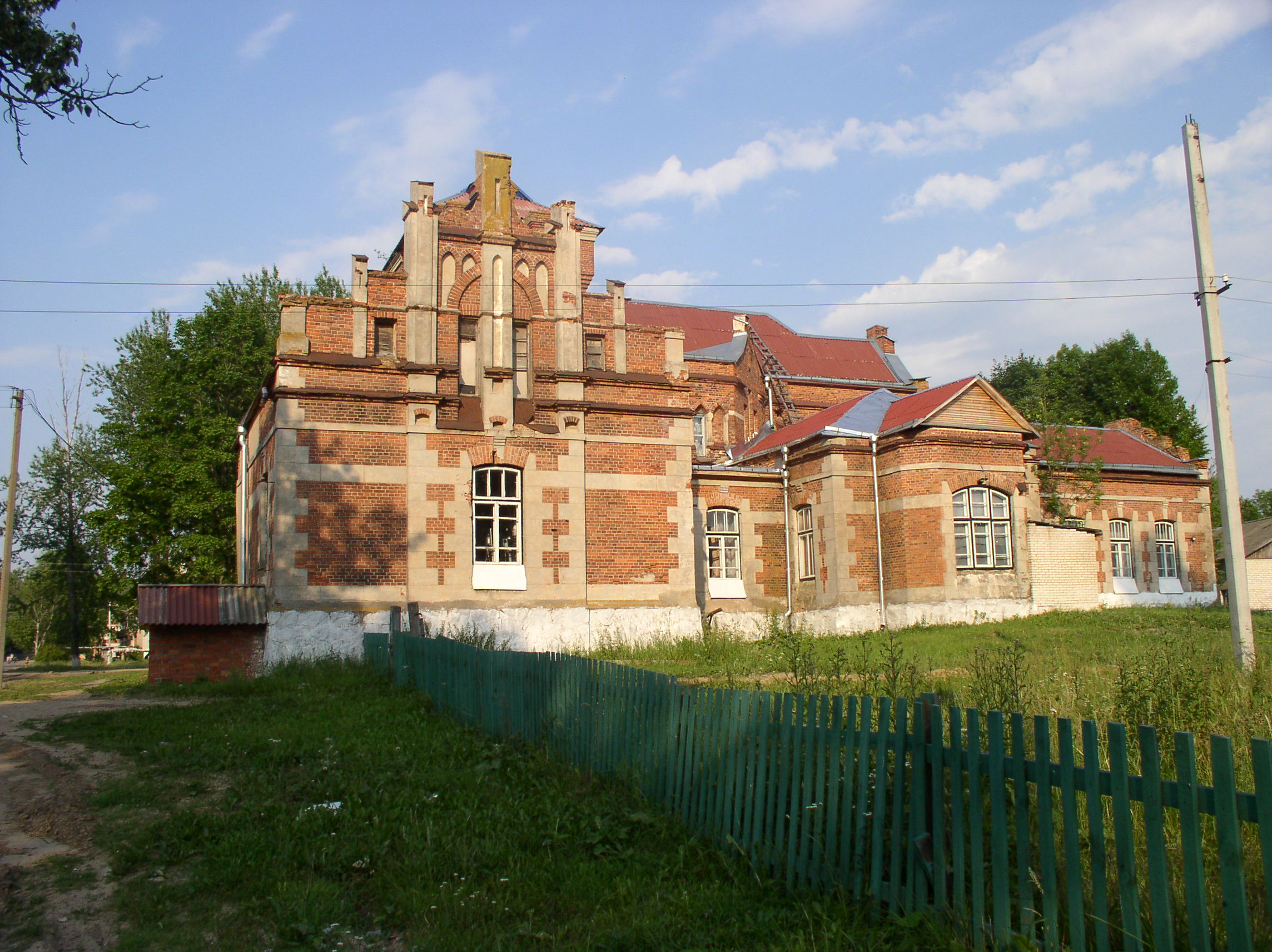 Manor. Rasony, Belarus.